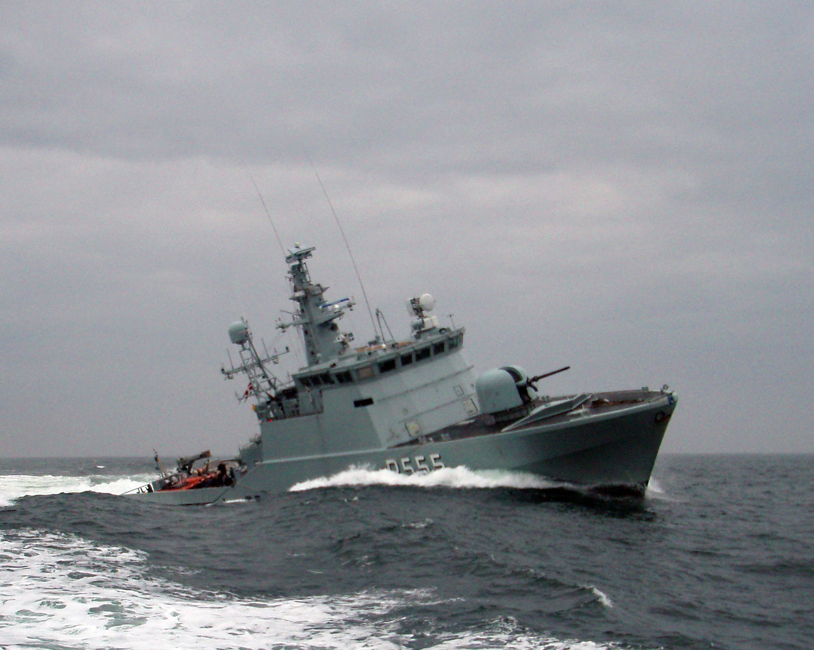 Danish navy SF300 vessel Støren (P555) accelerating